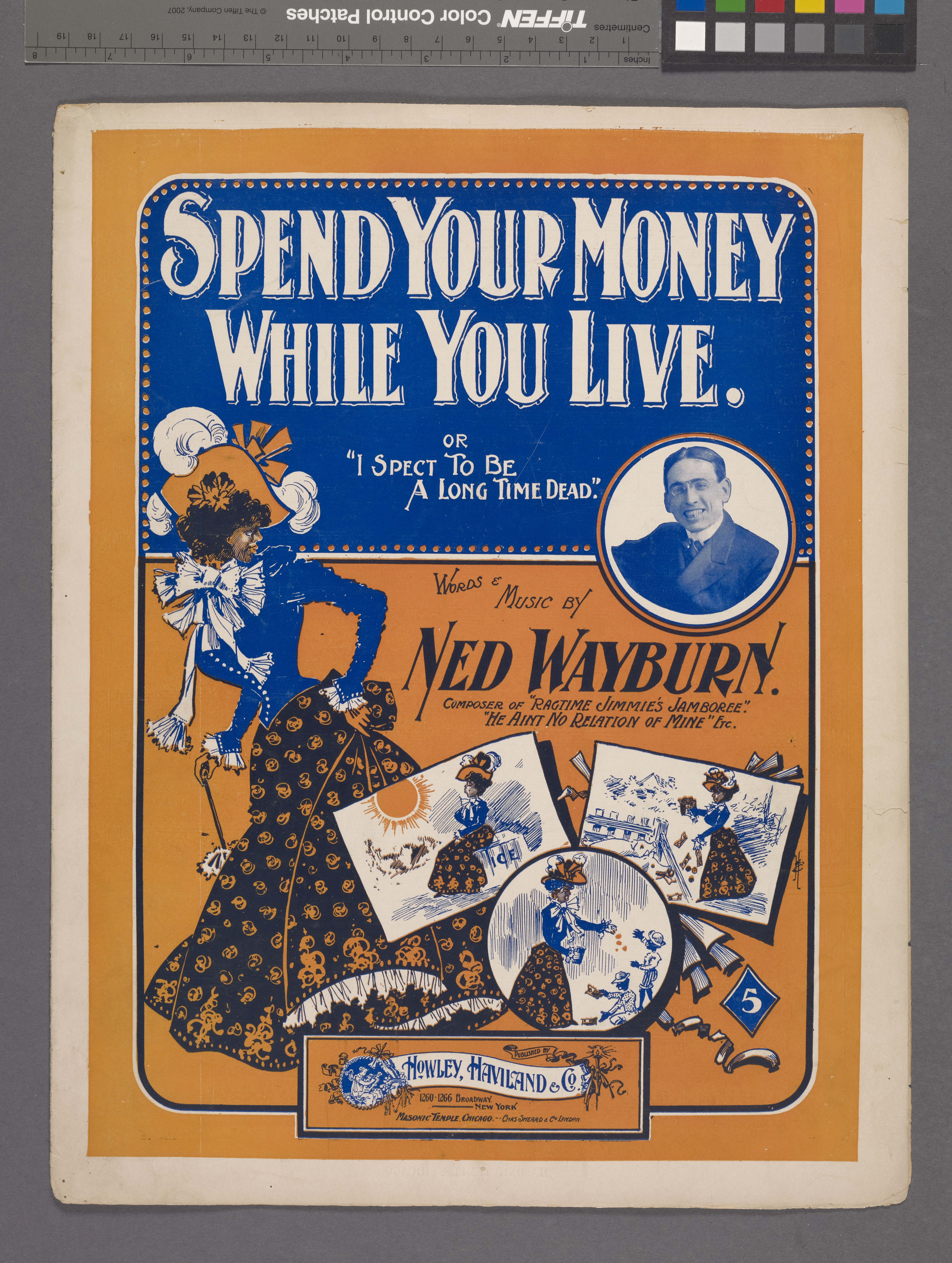 Cover design includes drawing of an elegantly dressed African American woman; 3 inset drawing show various activities of the woman. Summary: Describes the African American woman Creole Sarah, who is so "hot" in spending her money that she sits on ice; her philosophy is that one should spend and enjoy money while one is alive; the 2nd verse describes an interaction with two African American men, one of whom is trying to sell a life insurance policy. Cover includes photograph of Ned Wayburn. Statement of responsibility : words and music by Ned Wayburn.